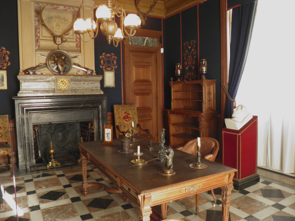 Marble Room. Petits appartements, château de Chantilly, Oise, France.